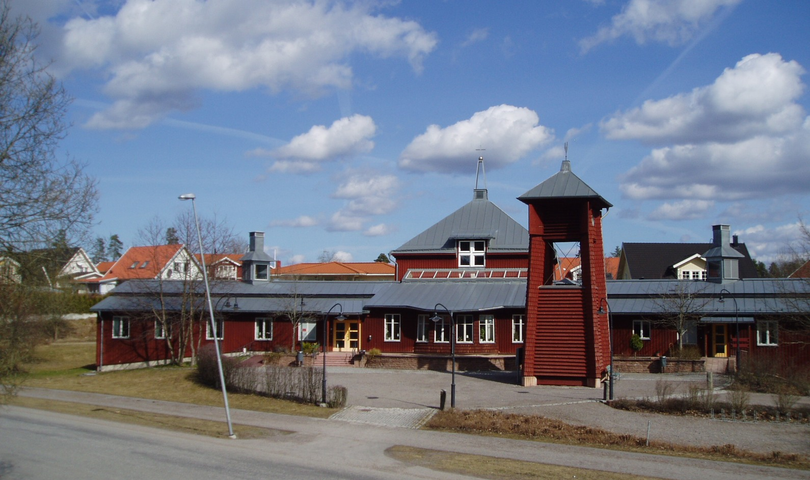 Lina kyrka, church at Södertälje, Sweden